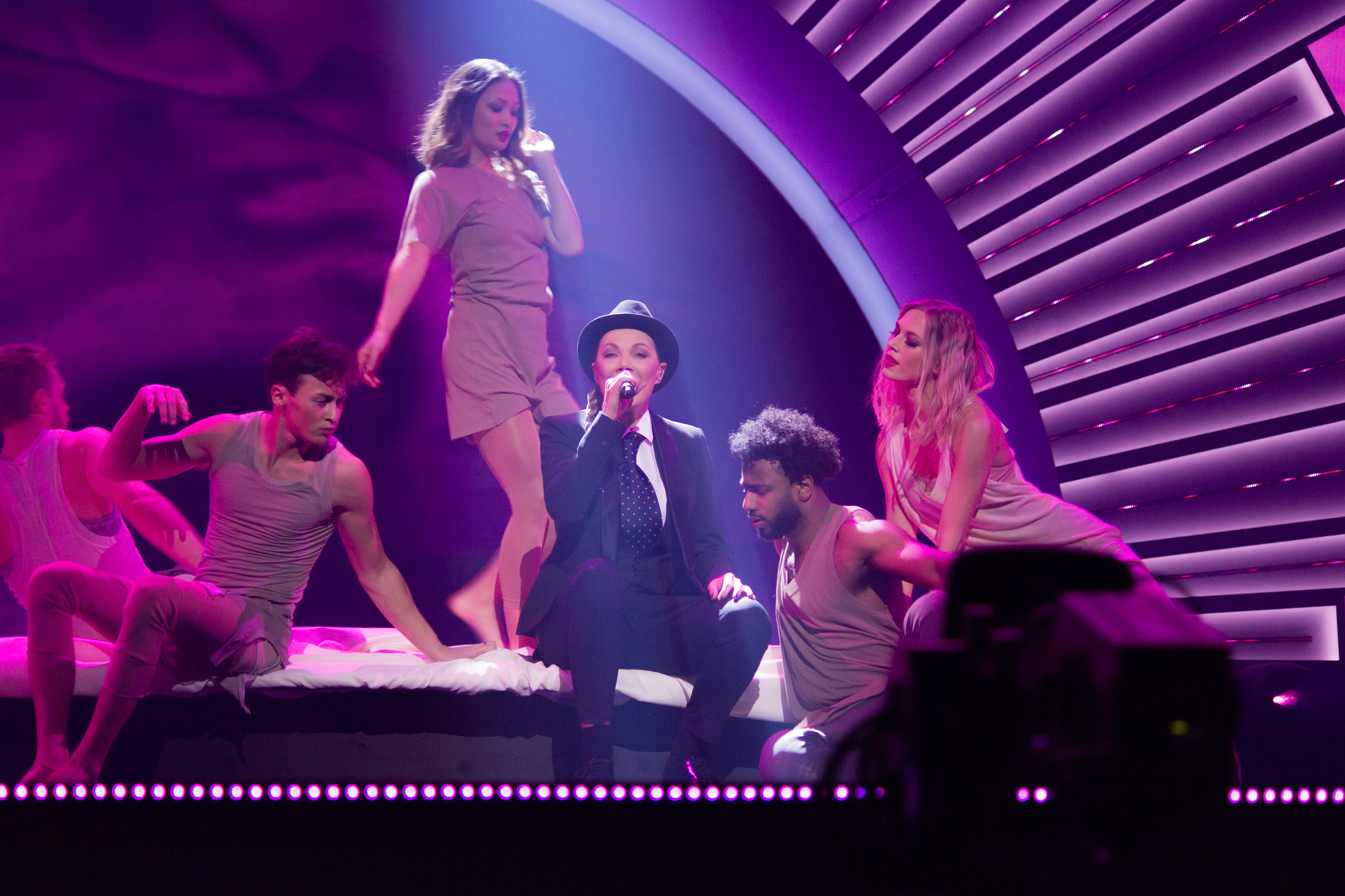 At the 2018 Danish Melodi Grand Prix. Sannie is internationally better known as Whigfield